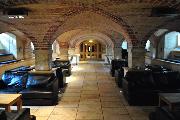 clare bar